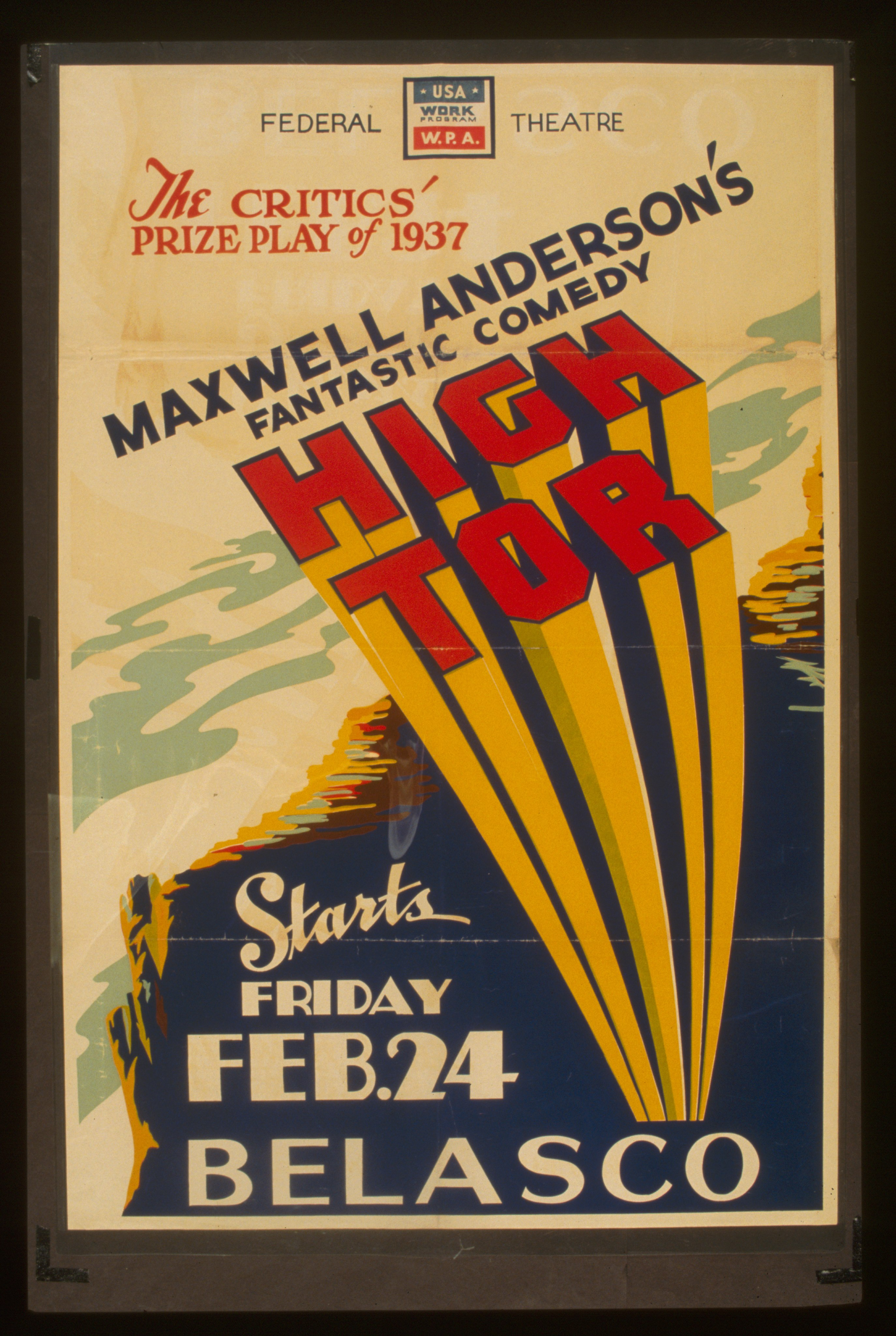 Title: The critics prize play of 1937 Maxwell Anderson's fantastic comedy "High tor" Abstract: Poster for Federal Theatre Project presentation of "High Tor" at the Belasco. Physical description: 1 print (poster) : silkscreen, color. Notes: Work Projects Administration Poster Collection (Library of Congress).